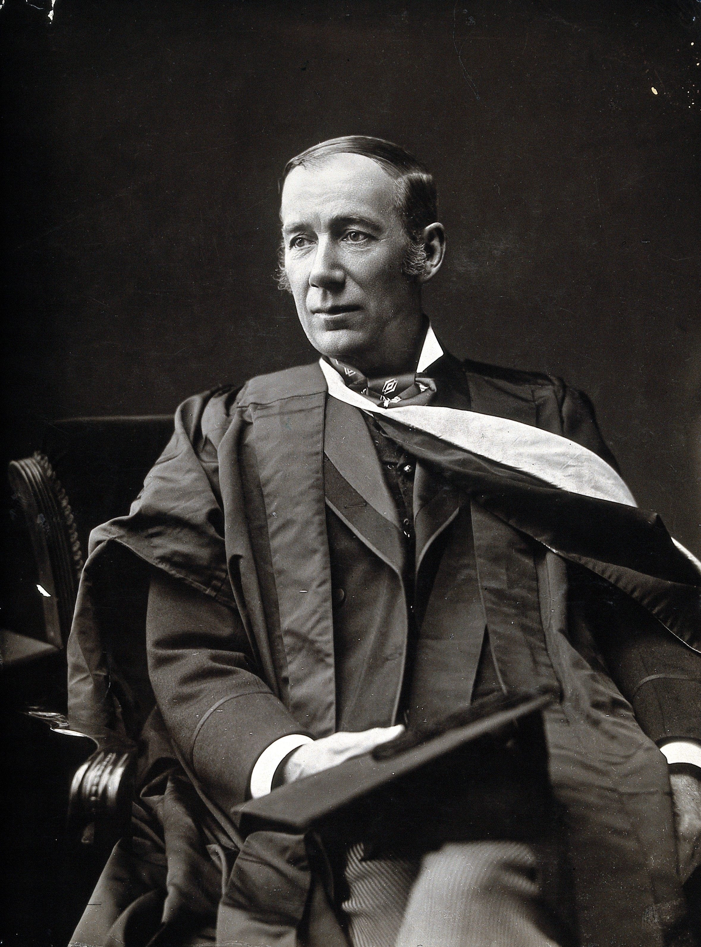 Pierce Adolphus Simpson. Photograph. Iconographic Collections Keywords: portrait photographs